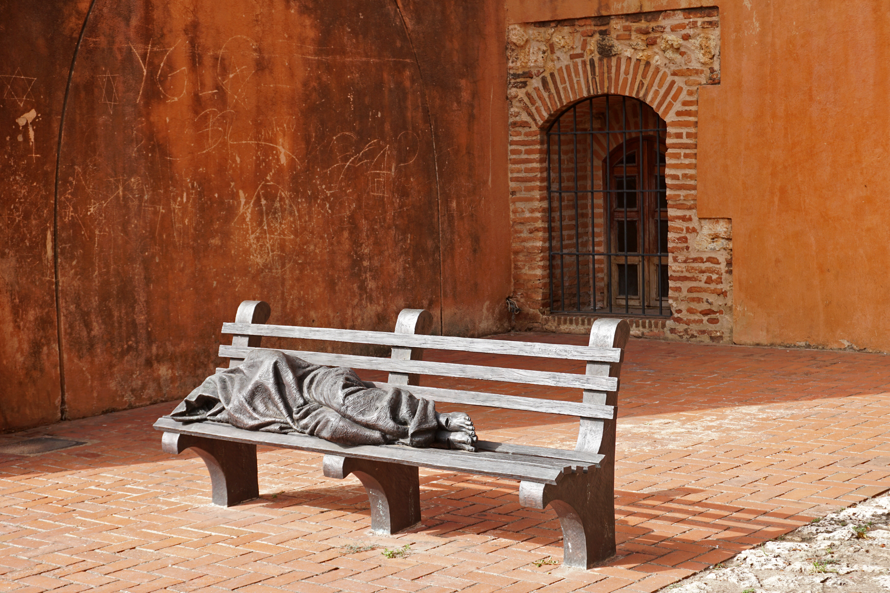 Replica of the "Homeless Jesus" sculpture by Thimoty P. Schmalz at the Dominican Order Church and Convent Ciudad Colonial, Santo Domingo, Dominican Republic.